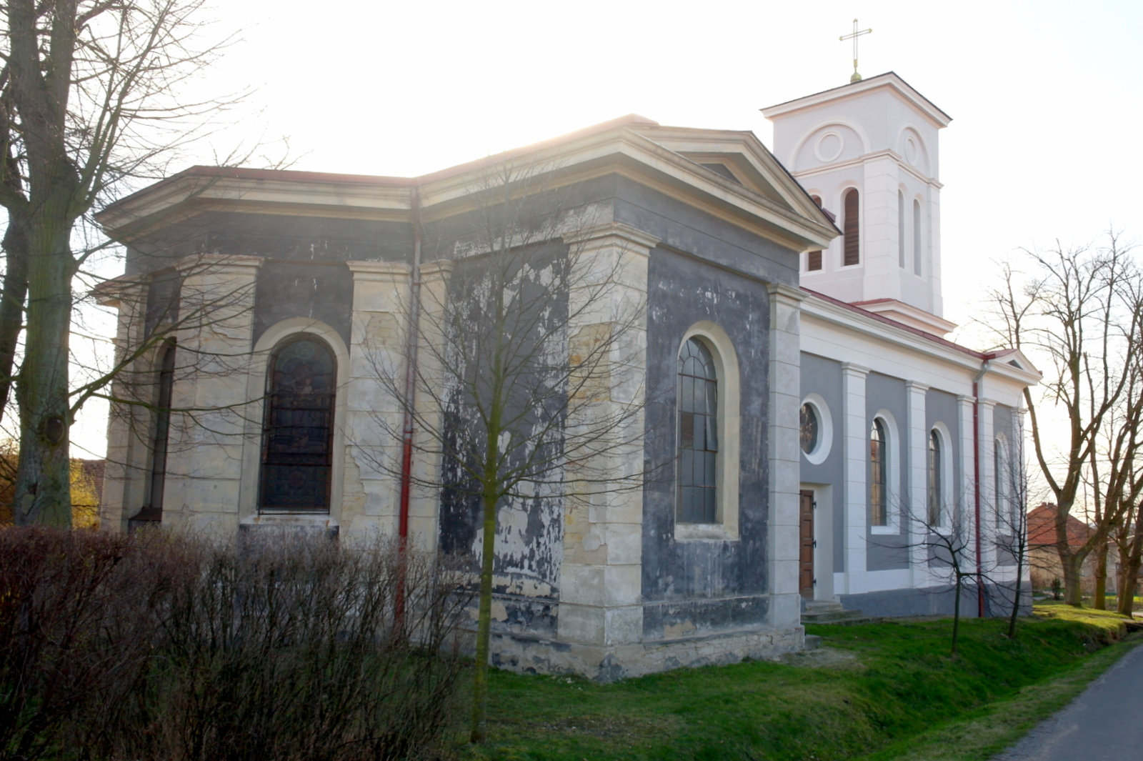 Church of the Nativity of the Virgin Mary, Záboří (Kly), Mělník District, NE view.